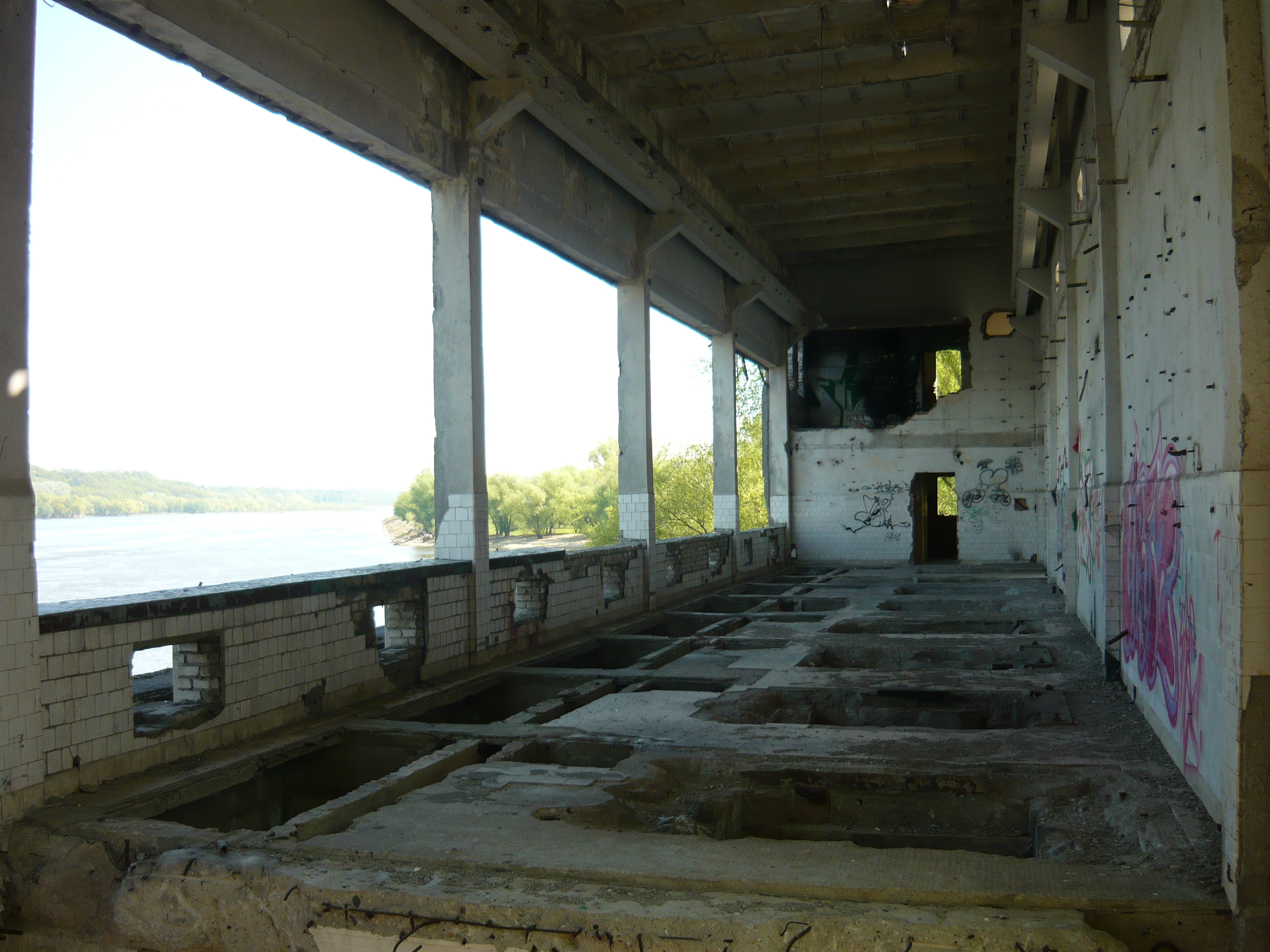 The ruin of water pump building of Cellulose factory named of Julian Marchlewski in Włocławek.